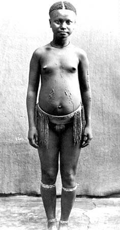 "Scarification pattern among the Great Andamanese in the late 19th century. Nothing is known of the origins or antiquity of this custom among the Andamanese." Citation from Clothes, Clay and Beautycare (of Great Andamanese people), by George Weber.